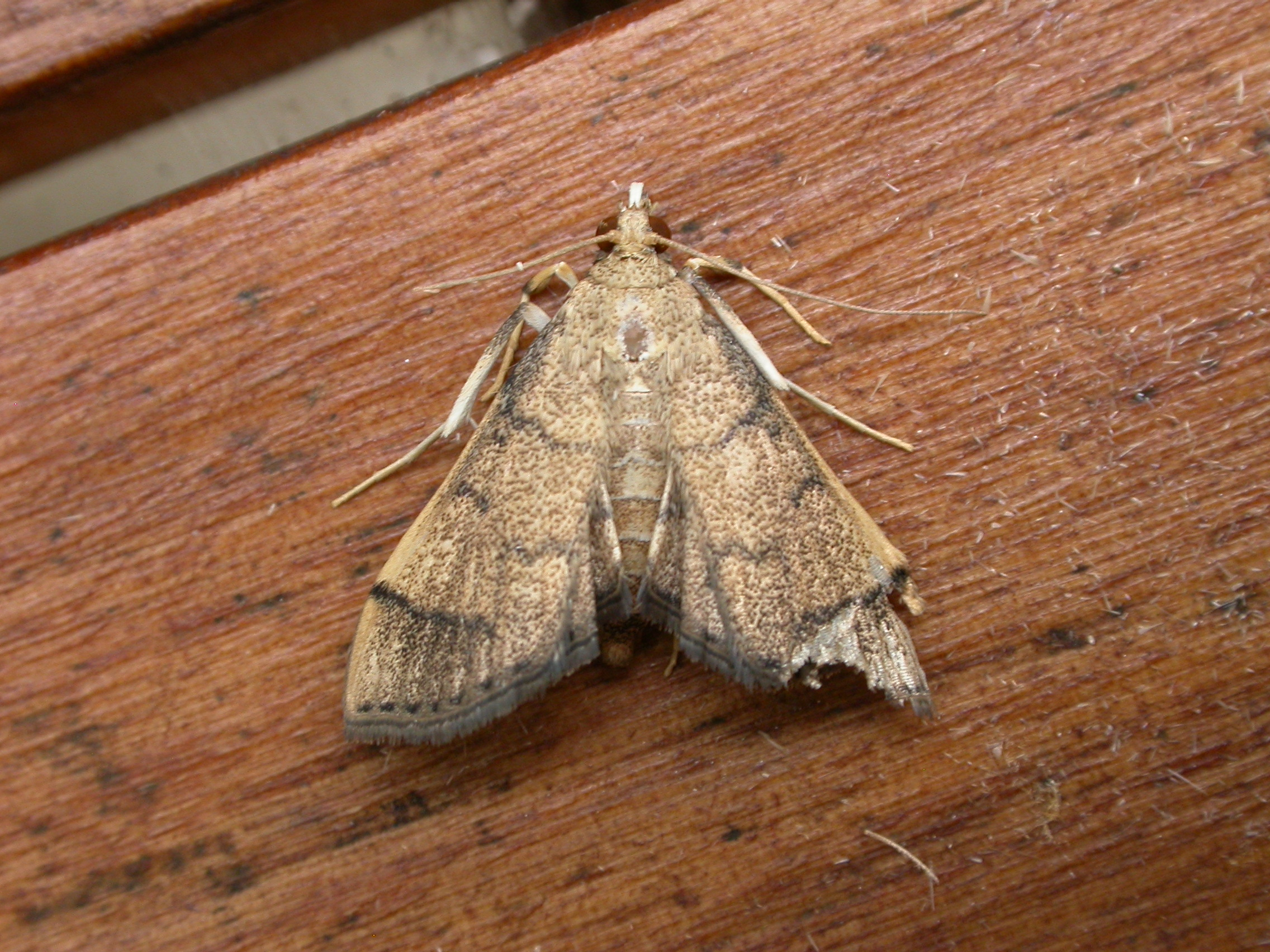 Omiodes indicata Fabricius, 1775, Mission Beach, QLD, 23 December 2011